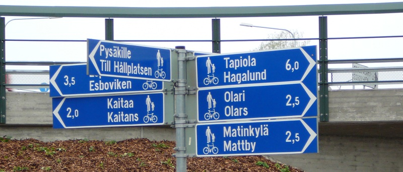 Opening ceremony of the traffic circle of Suomenoja on Sept, 19th 2006.